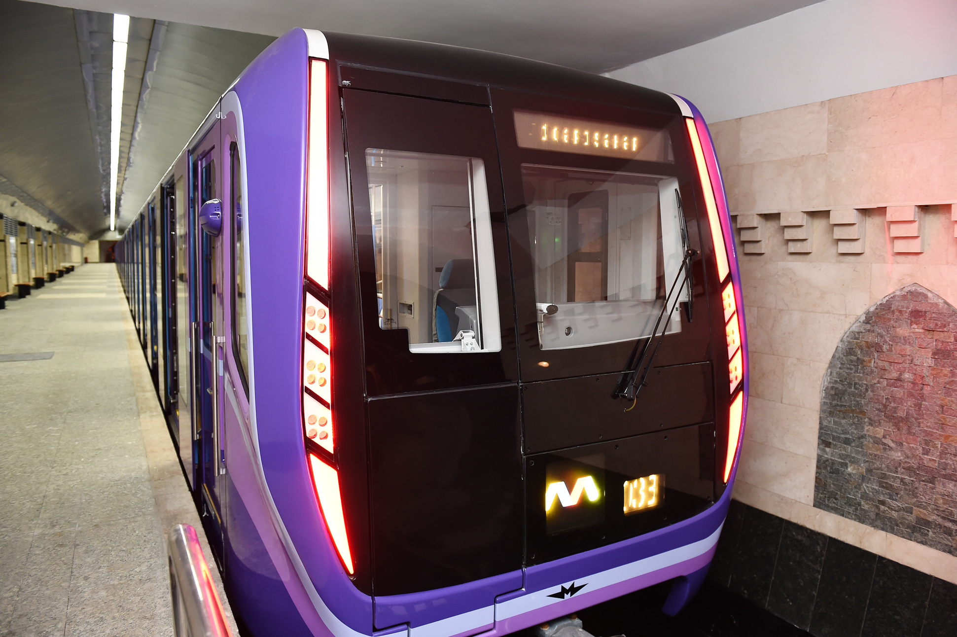 Subway electric train 81-765/766 «Moscow» № 0016—0020 at Icheri Sheher station of Baku Metro (view from back)